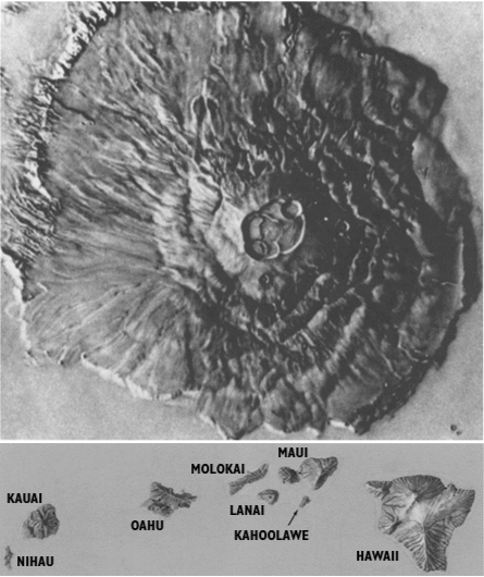 Scale representation of Olympus Mons and Hawaii. Olympus Mons is a shield volcano on Mars, and the largest volcano in the solar system. Like the Hawaiian shields on Earth, it is built over millions of years by highly fluid basalt flows, but on a much more massive scale, as this scaled image shows.